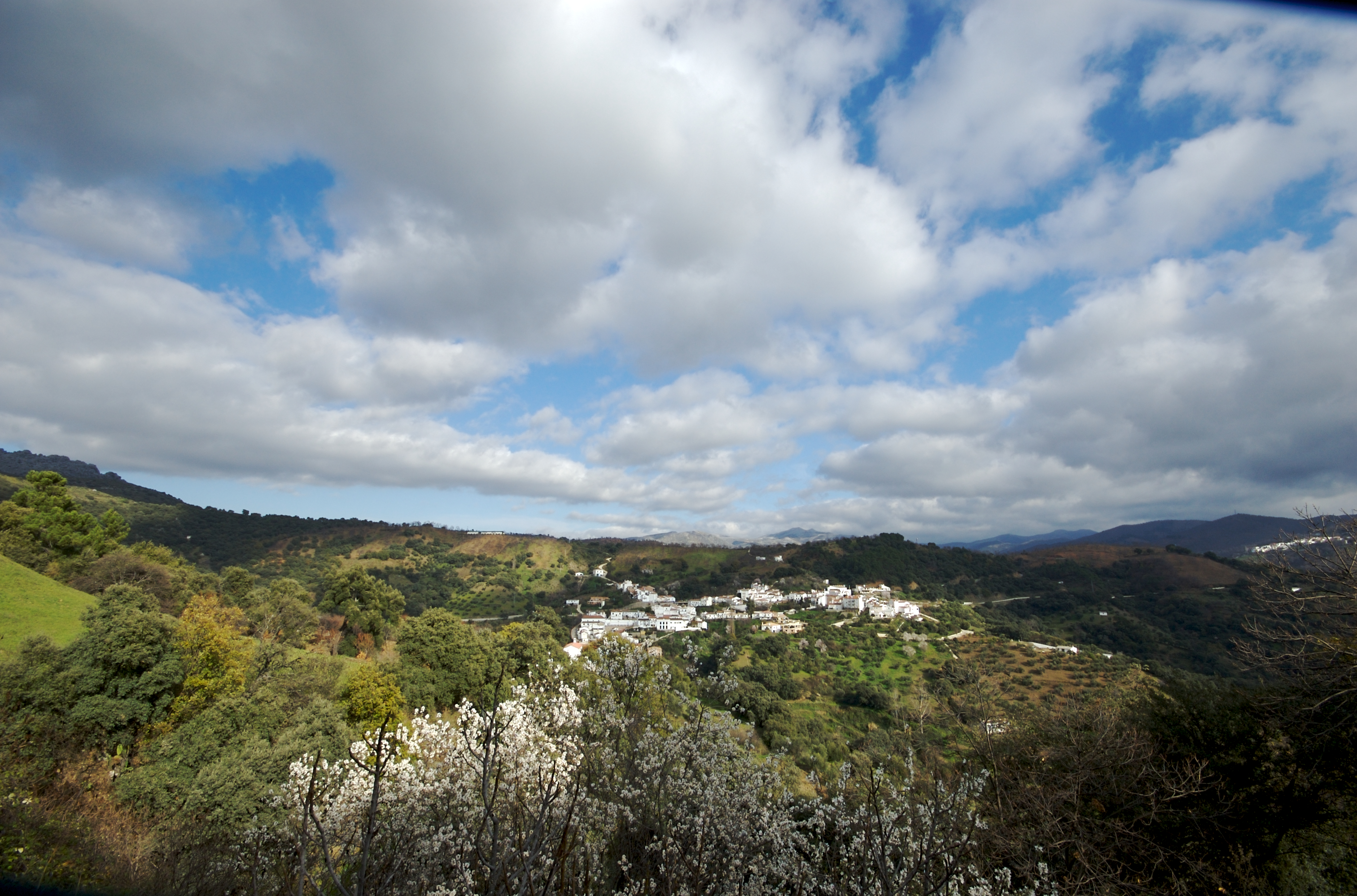 View of Júzcar, Málaga, Spain.